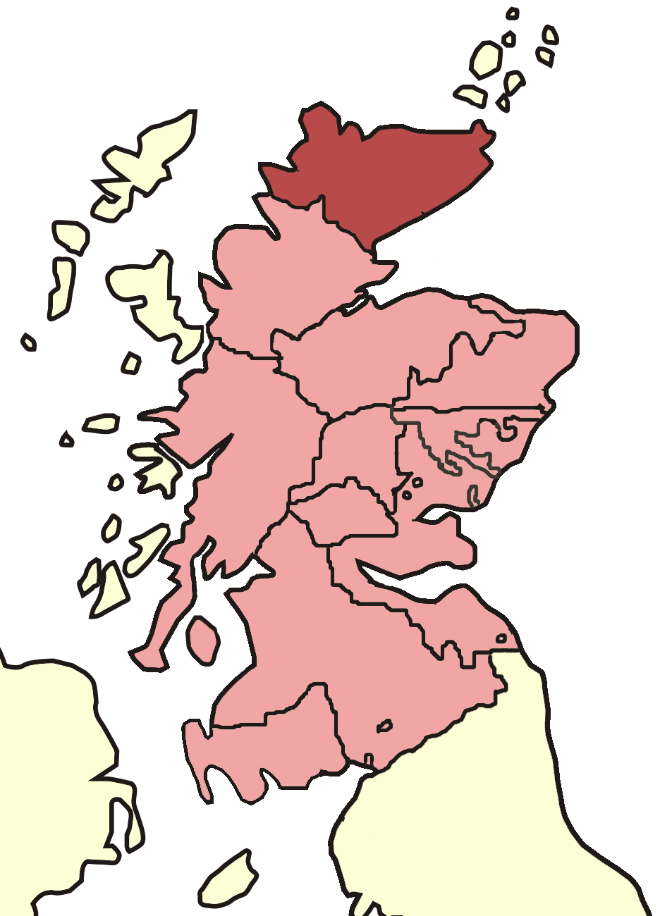 Diocese of Scotland in the reign of king David I. Based on William Forbes Skene's map of 1887.